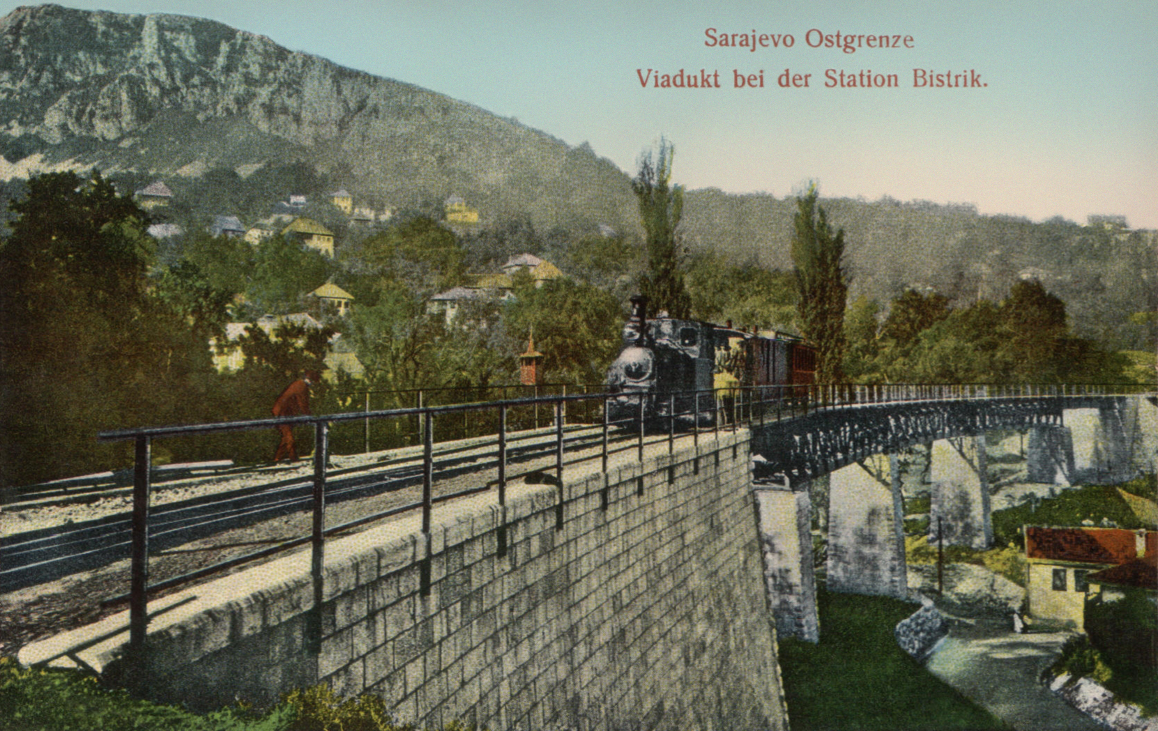 Moments prior to entering the narrow-gauge railway station Bistrik